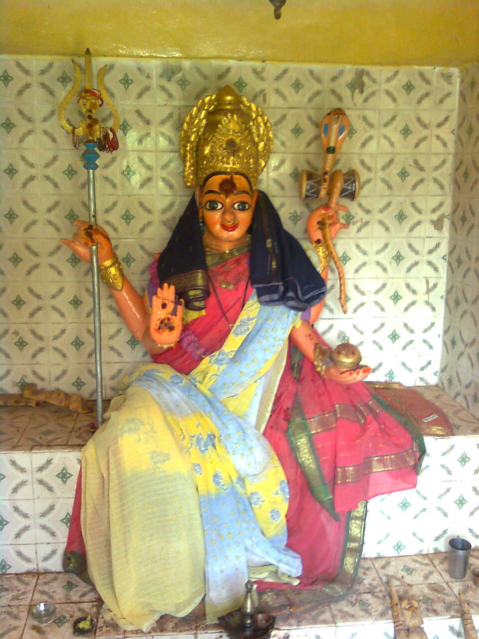 Gudilova, Anandapuram mandal, Visakhapatnam district